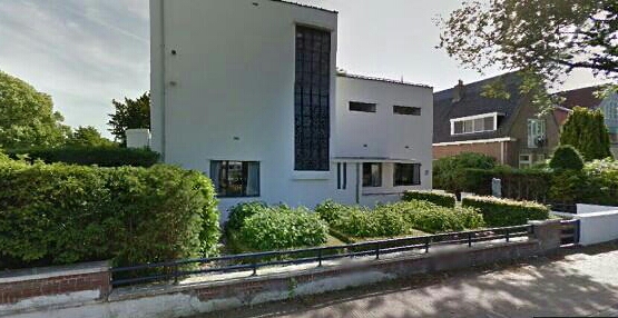 De villa aan de Dorpsstraat in Bergen